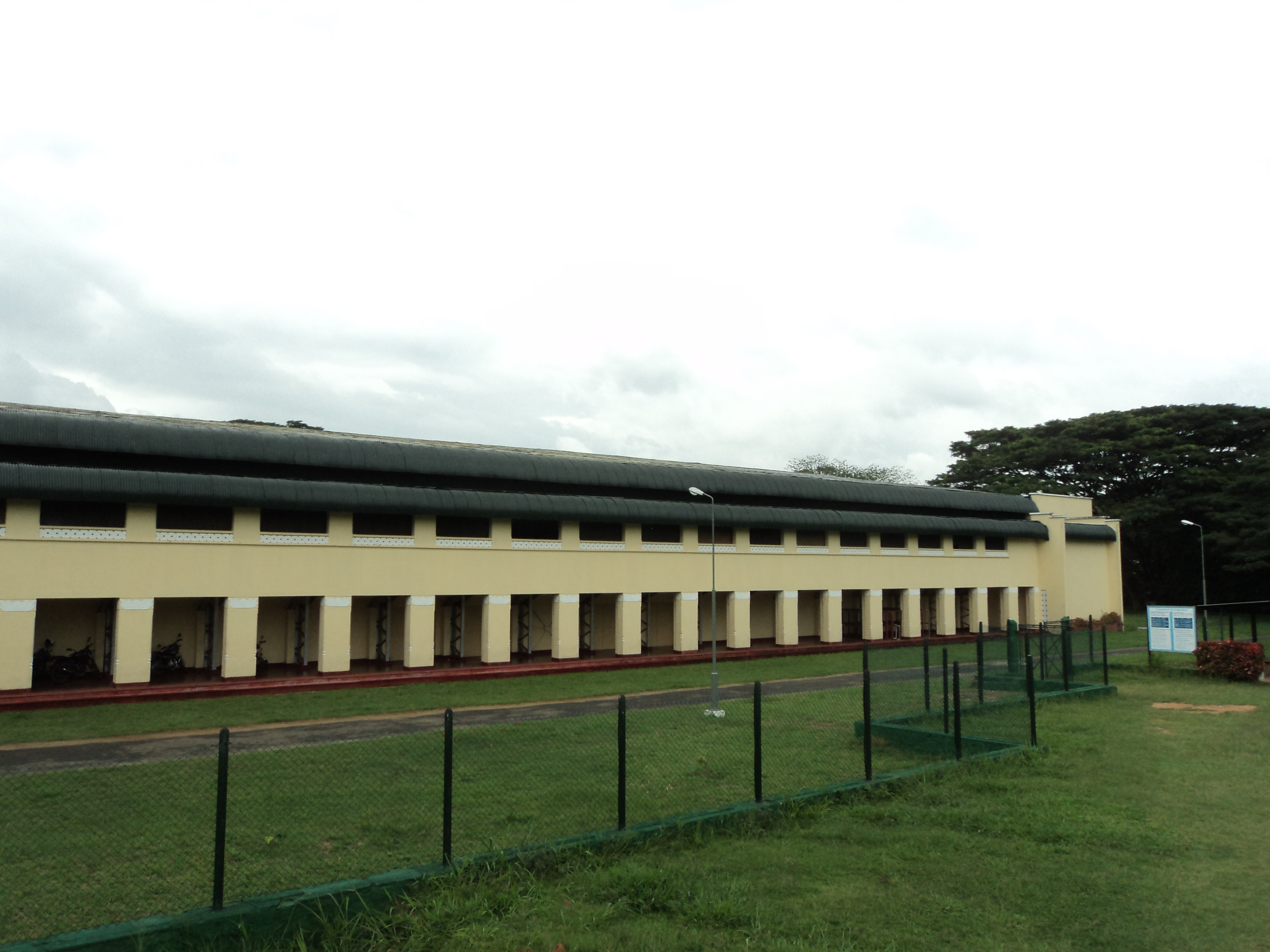 side view of the University of Peradeniya, Sri Lanka, Gymnasium